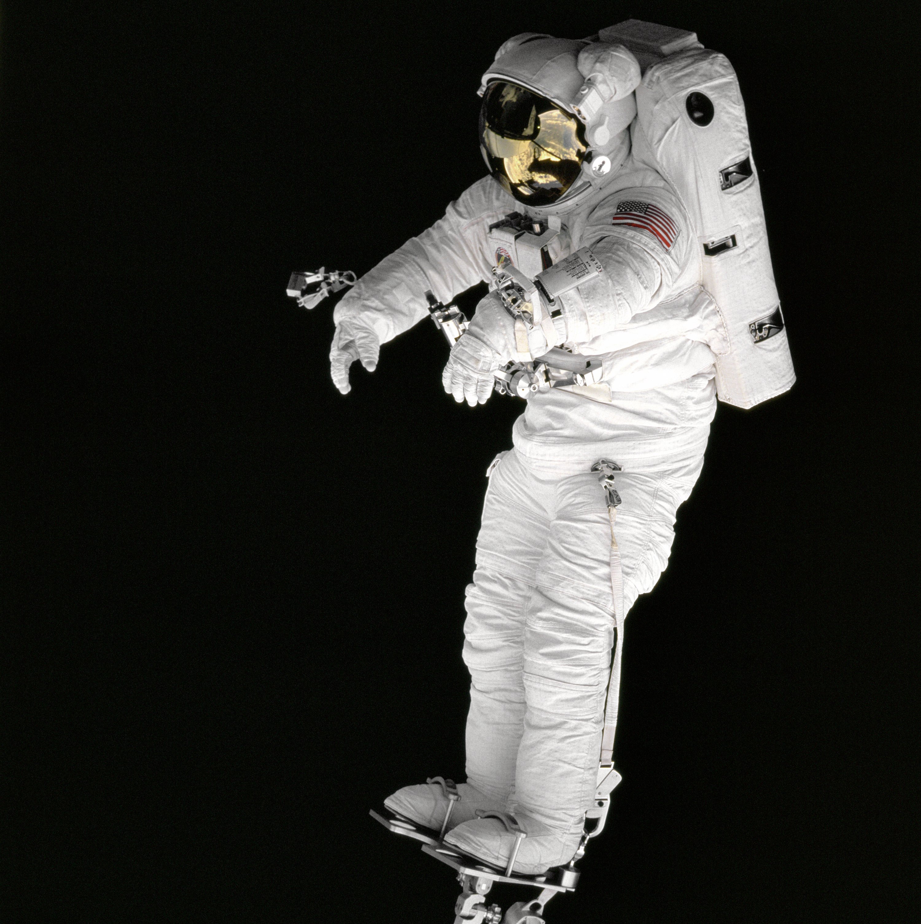 Against the blackness of space, Mission Specialist Peter J.K. Wisoff, wearing an extravehicular mobility unit, stands on a Portable Foot Restraint (PFR), Manipulator Foot Restraint (MFR) attached to the End Effector of the Remote Manipulator System (RMS), colloquially known as the "robot arm". Wisoff is being maneuvered above the payload bay of Endeavour as part of Detailed Test Objective (DTO) extravehicular activity procedures. DTO results will assist in refining several procedures being developed to service the Hubble Space Telescope on mission STS-61 in December 1993. The Earth's surface and the Endeavour payload bay are reflected in Wisoff's helmet visor.